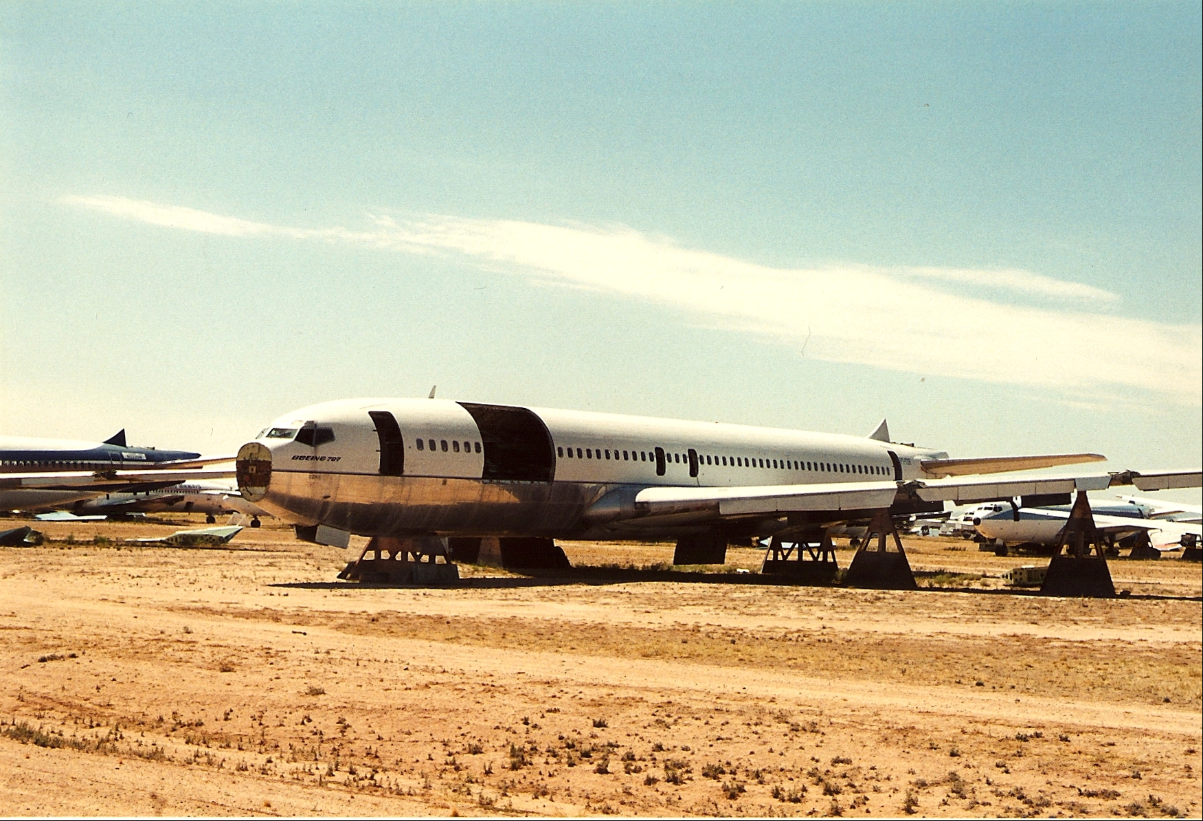 Doors, landing gear, engines, tail surfaces? and controls all gone now. -94-bb The USAF went through and applied all the later technology from the final evolution of the 707 to the KC-135. Larger horizontal stabilizer, Turbofan (CFM-56) instead of light bypass JT8Ds.